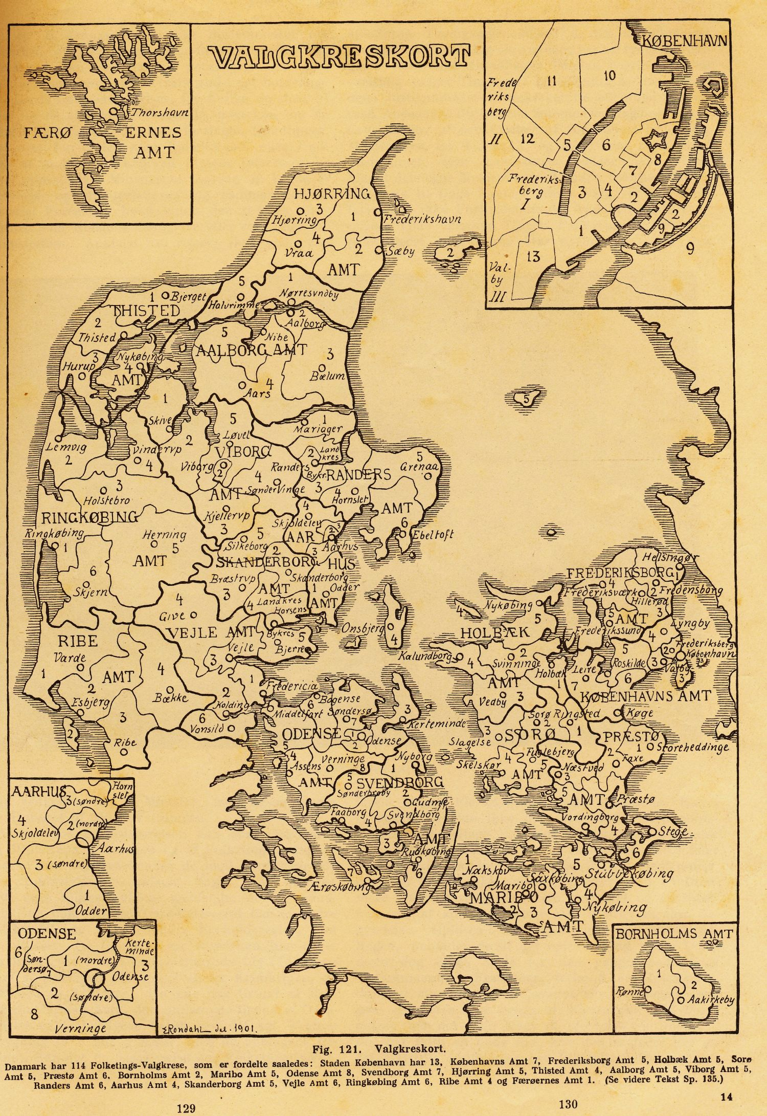 Map of parliamentary election districts of Denmark in 1901.